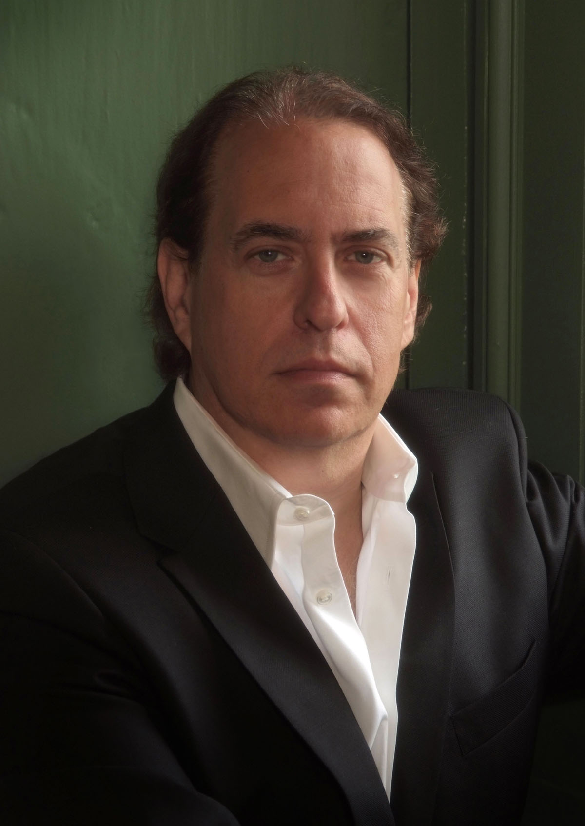 This is a photo of Glenn Cooper, an internationally best-selling thriller writer from New Hampshire, United States.